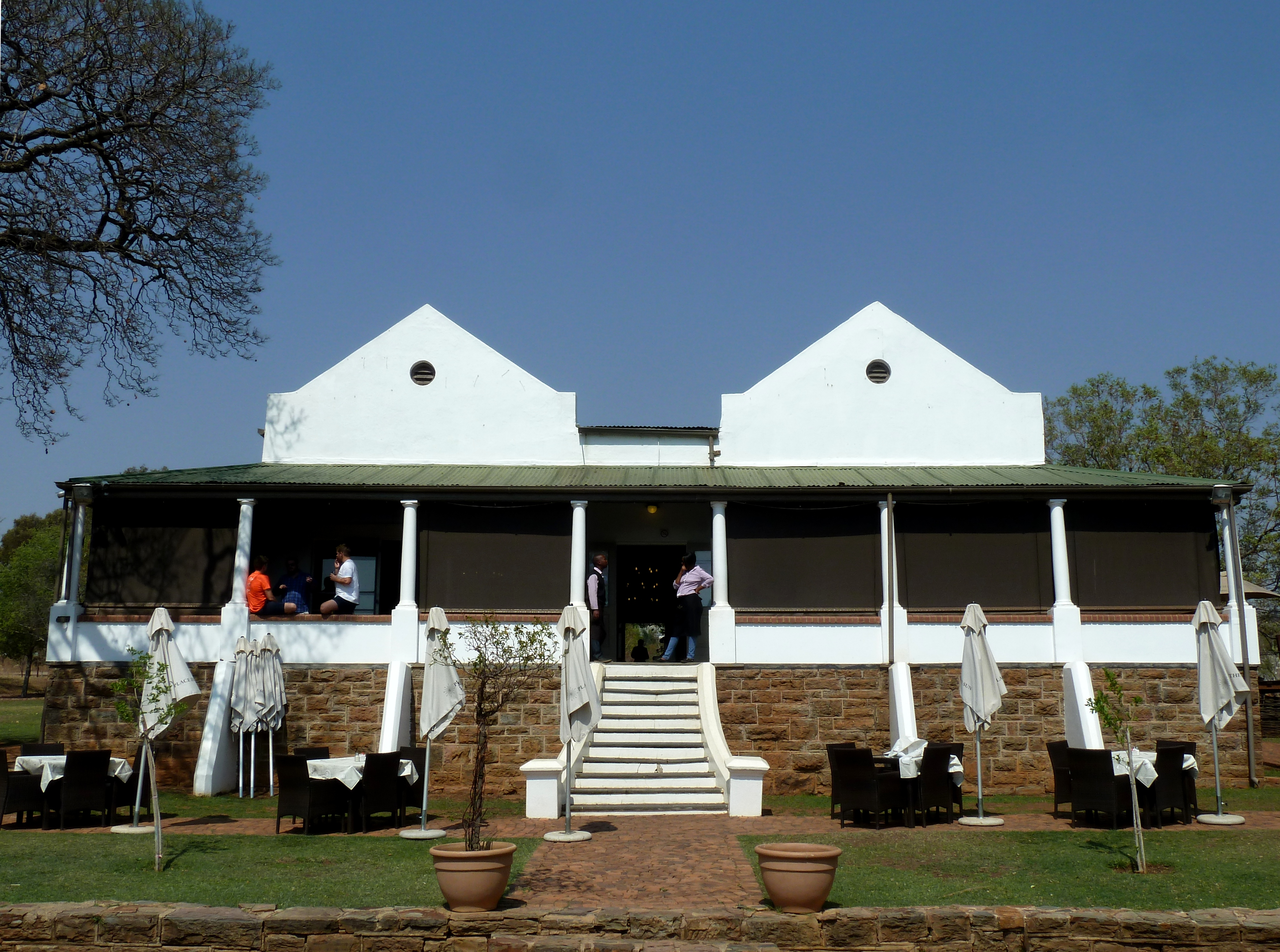 Back veranda of Rademeyers in the Moreleta Kloof Municipal Nature Reserve, Pretoria